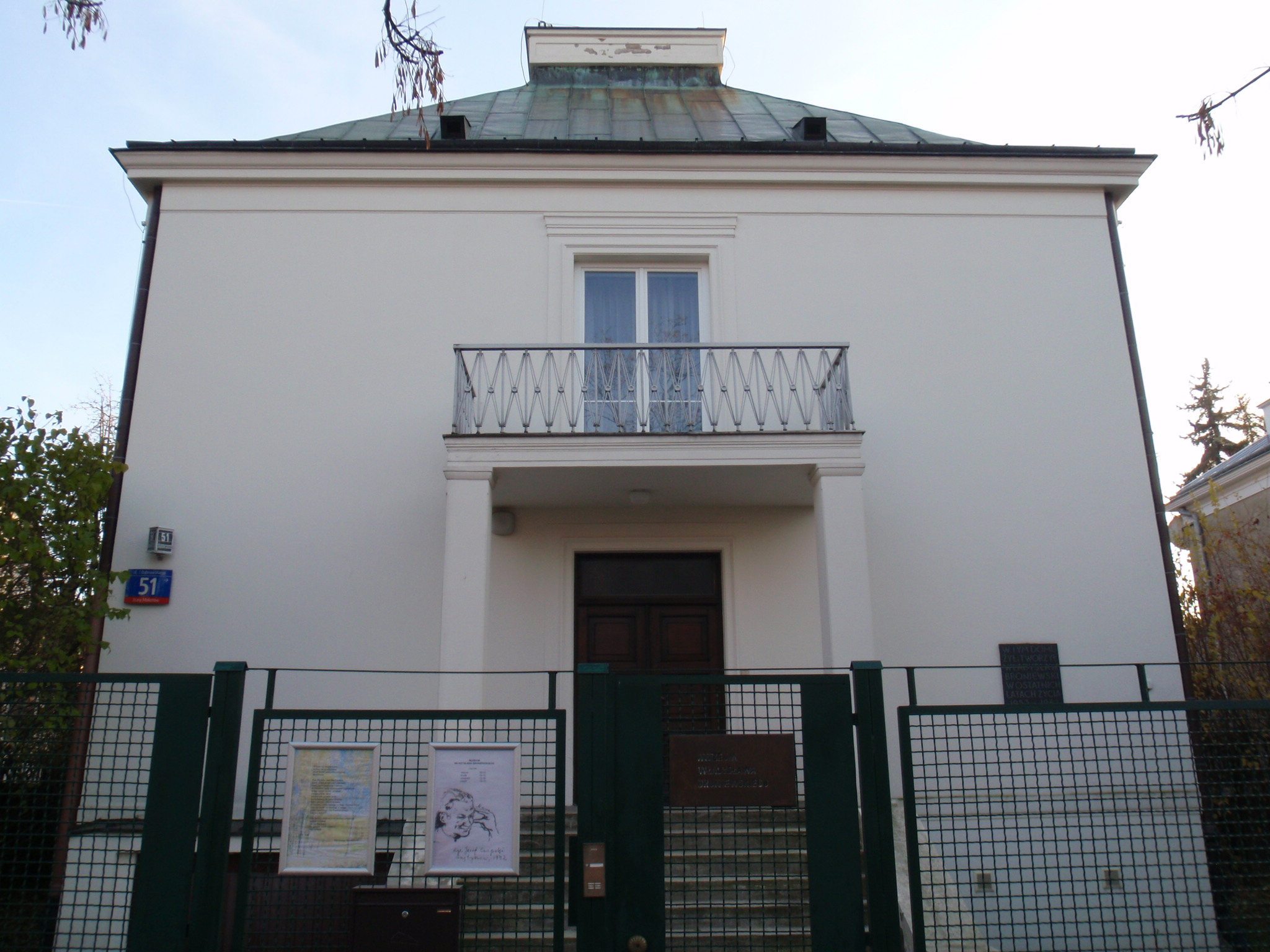 Museum of Władysław Broniewski in Warsaw